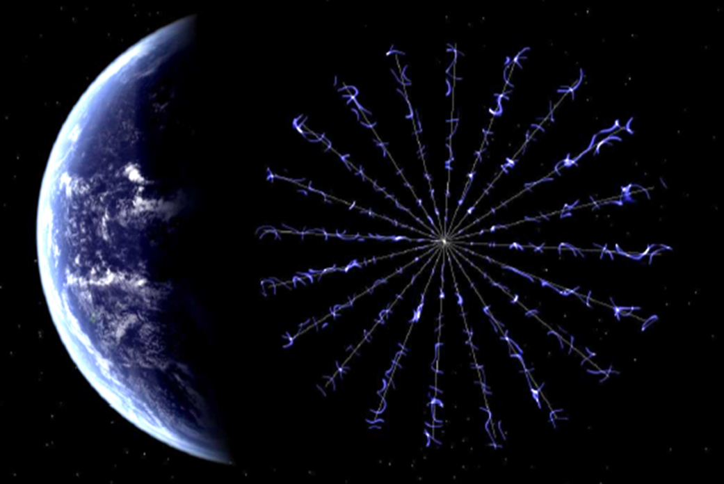 Want to take a fast trip to the edge of the Solar System? Consider a ride on a Heliopause Electrostatic Rapid Transit System (HERTS). The concept is currently being tested and it might take only 10 to 15 years to make the trip of over 100 Astronomical Units (15 billion kilometers). That's fast compared to the 35 years it took Voyager 1, presently humanity's most distant spacecraft, to approach the heliopause or outer boundary of the influence of the solar wind. HERTS would use an advanced electric solar sail that works by extending multiple, 20 kilometer or so long, 1 millimeter thin, positively charged wires from a rotating spacecraft. The electrostatic force generated repels fast moving solar wind protons to create thrust. Compared to a reflective solar light sail, another propellantless deep space propulsion system, the electric solar wind sail could continue to accelerate at greater distances from the Sun, still developing thrust as it cruised toward the outer planets